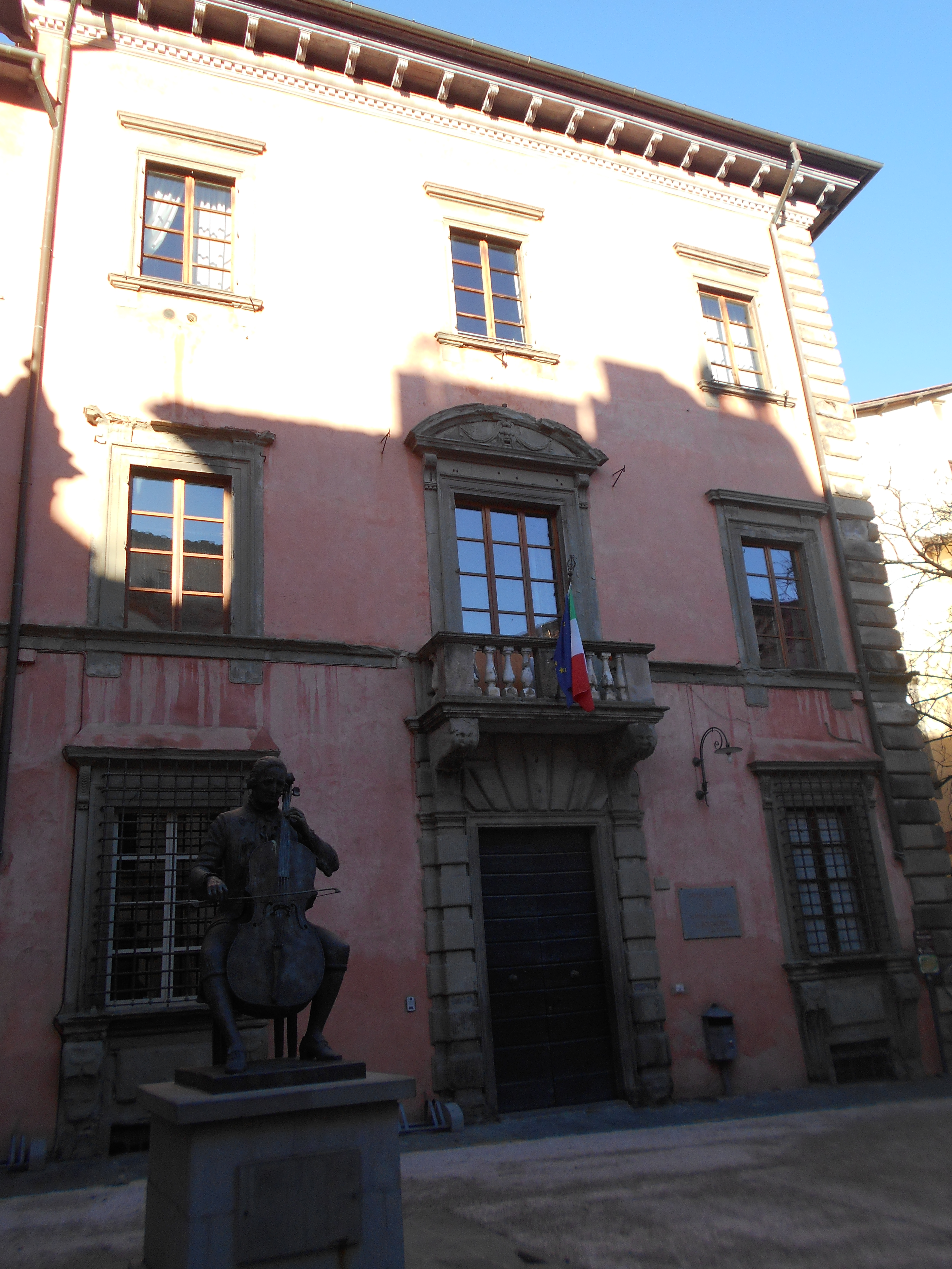 Luigi Boccherini, Lucca